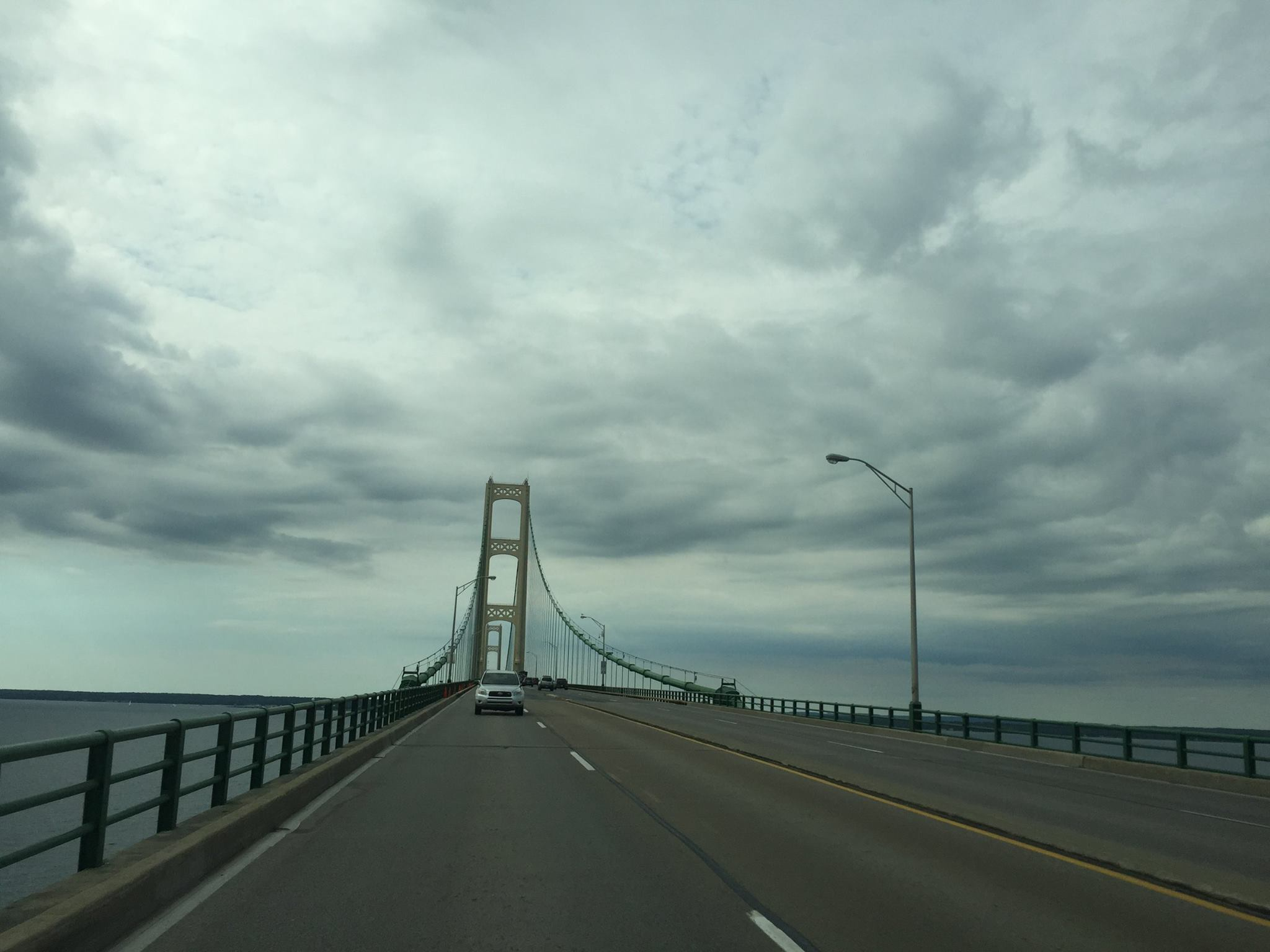 Looking south along I-75. The Mackinac Bridge connects the Upper and Lower Peninsula via Interstate 75, and is one of the longest suspension bridges in the world.